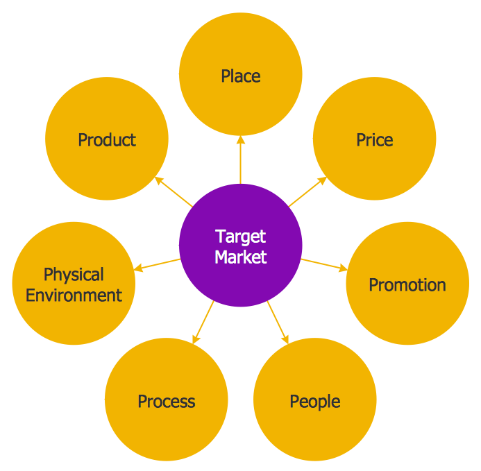 The circle-spoke diagram illustrates the marketing basis, relationships, and interactions between the target market and the main components of the marketing strategy. This diagram was created in ConceptDraw PRO using the Circle-Spoke Diagram library from the Circle-Spoke Diagrams solution.